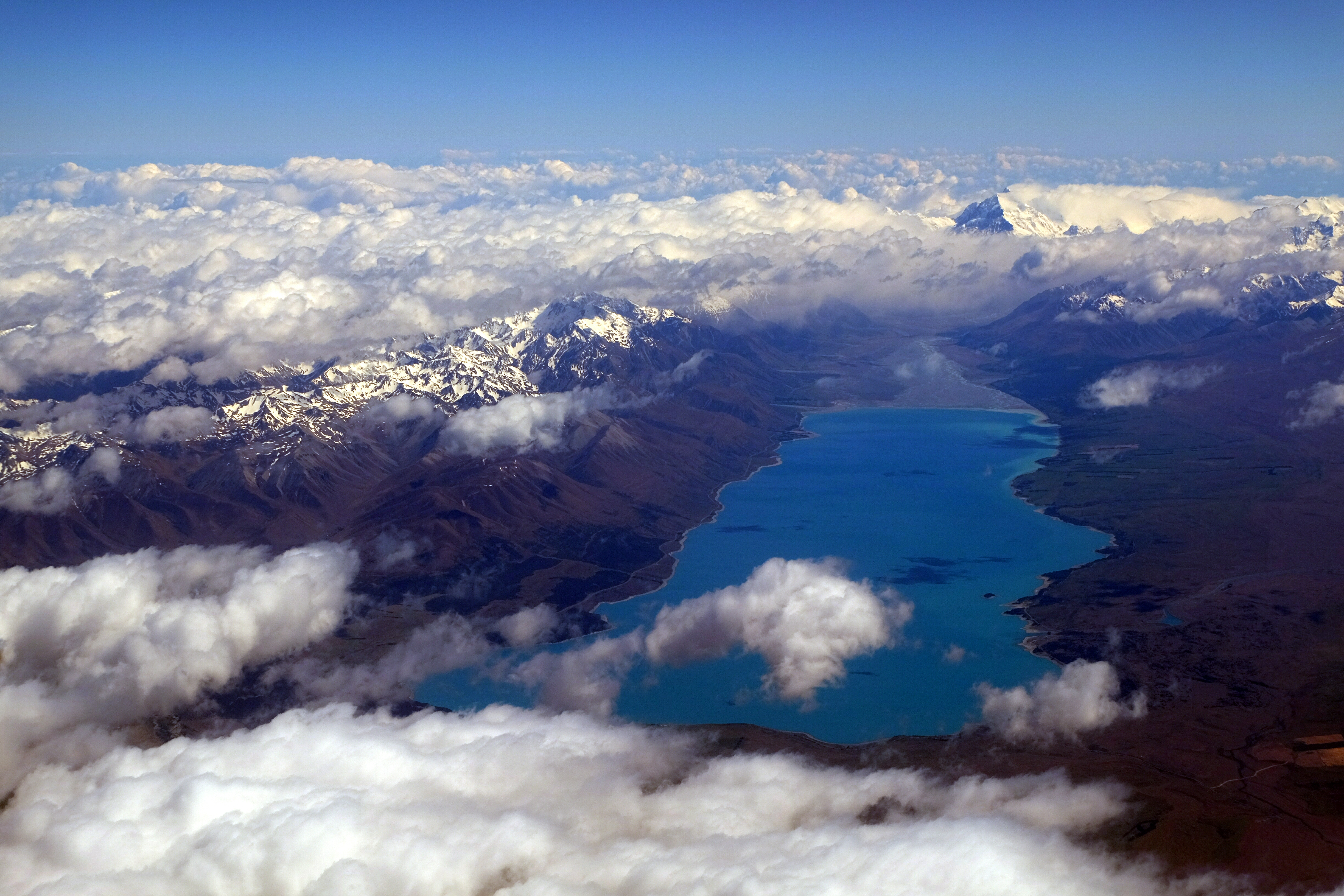 Laki Pukaki with Aorangi in the distance, as seen in November 2015.